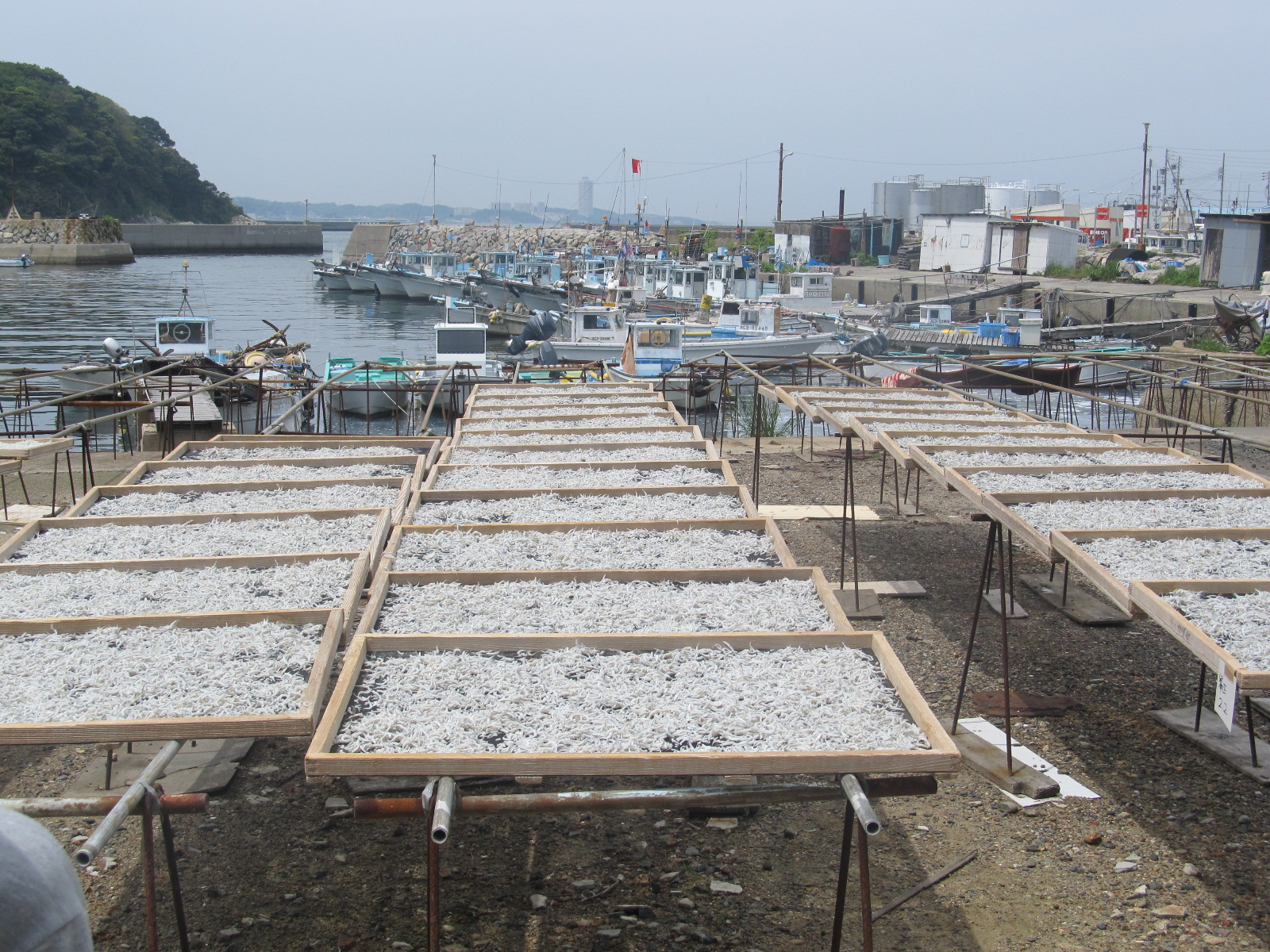 Shinojima- Island Fishermens Wharf